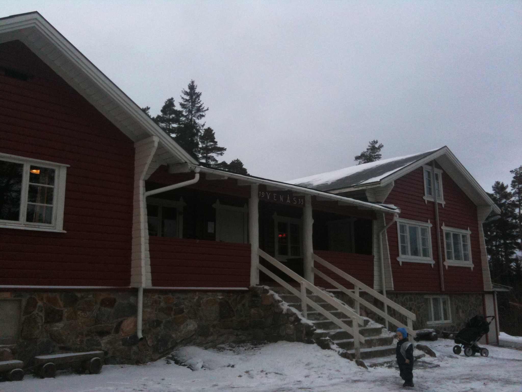 Venaas ski cabin, est. 1933 by Gimle Ski Club, in the city of Halden, Norway.